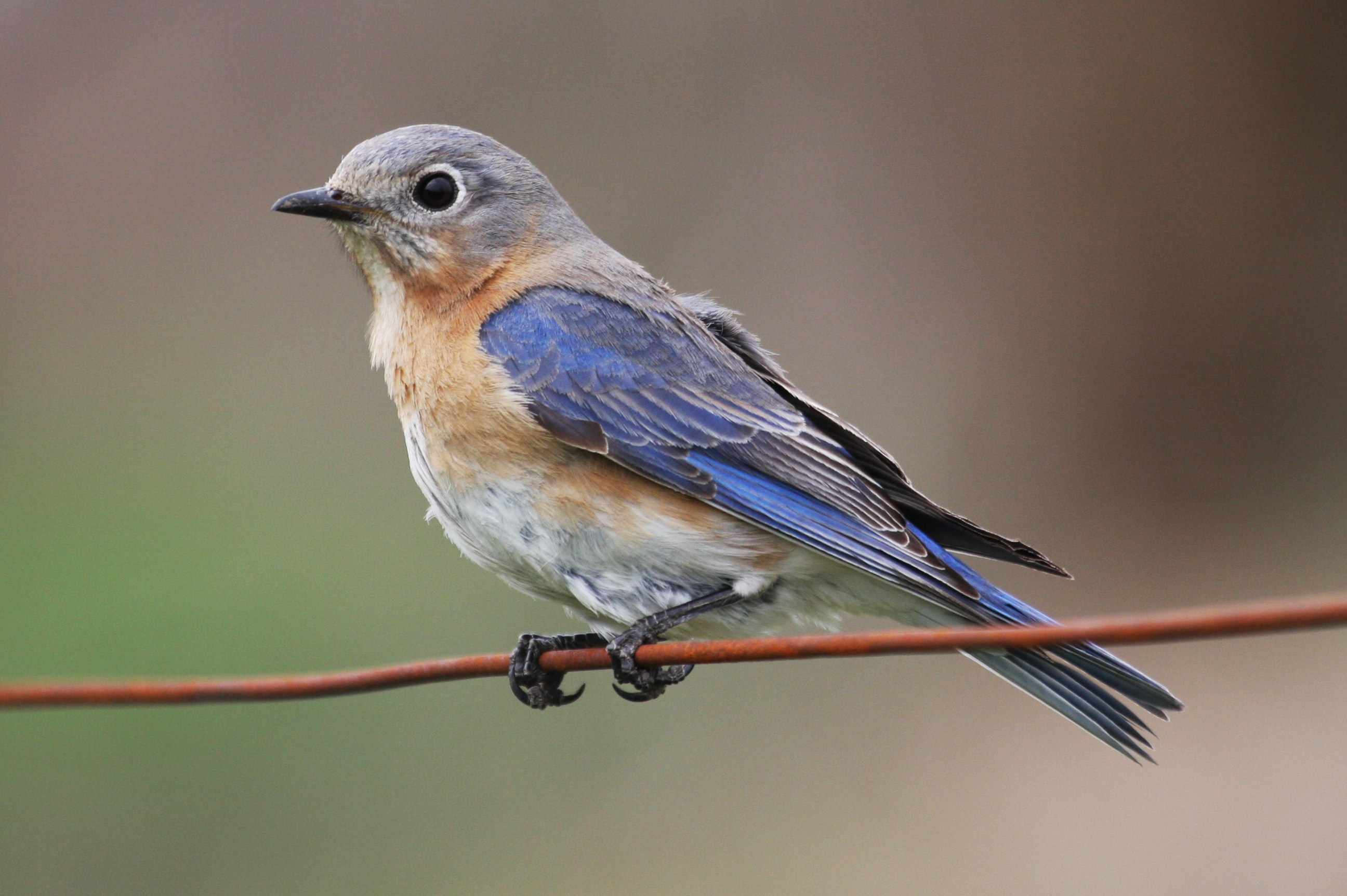 A female Eastern Bluebird in Michigan, USA.